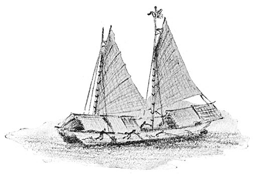 Illustration of a Tagalog casco barge